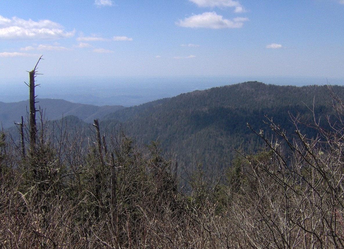 The view looking north from Mount Chapman (el. 6,417 feet/1,956 meters), near the summit. This vista is found along the Appalachian Trail in the Great Smoky Mountains, at a bend between Chapman's lower peak and true summit. Mount Chapman is an appx. 10.5-mile hike from the nearest parking lot.